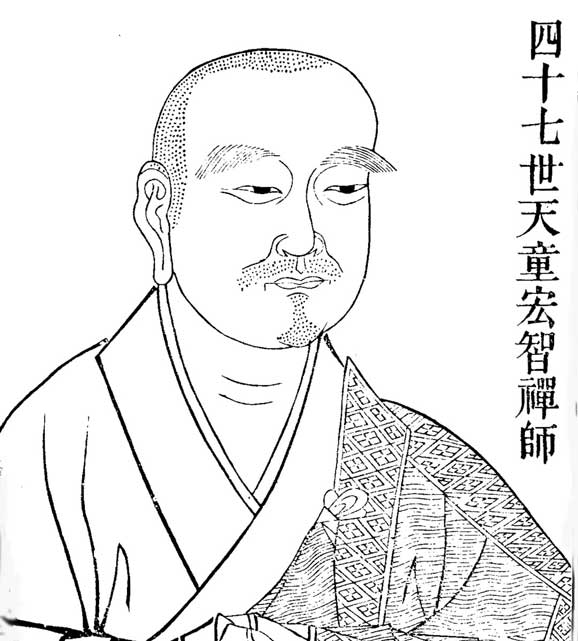 Image of Hongzhi Zhengjue, a 12th century Chinese Zen monk